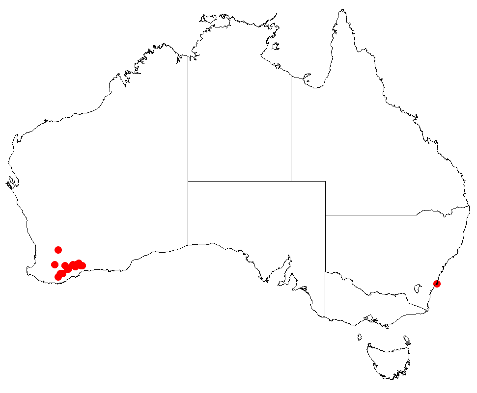 Hakea brachyptera Occurrence data downloaded from Australasian Virtual Herbarium on 22 November 2018 using